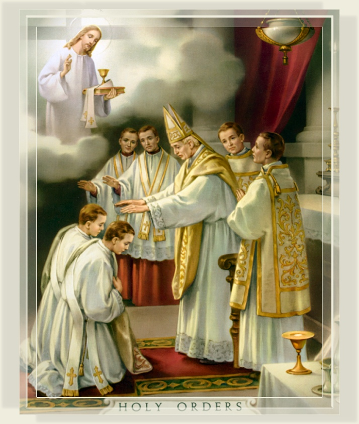 altar boy book on serving different Catholic Church ceremonies